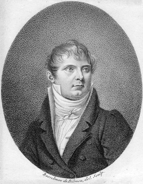 French composer, musicologist and publisher Jérôme-Joseph de Momigny (1762-1842).